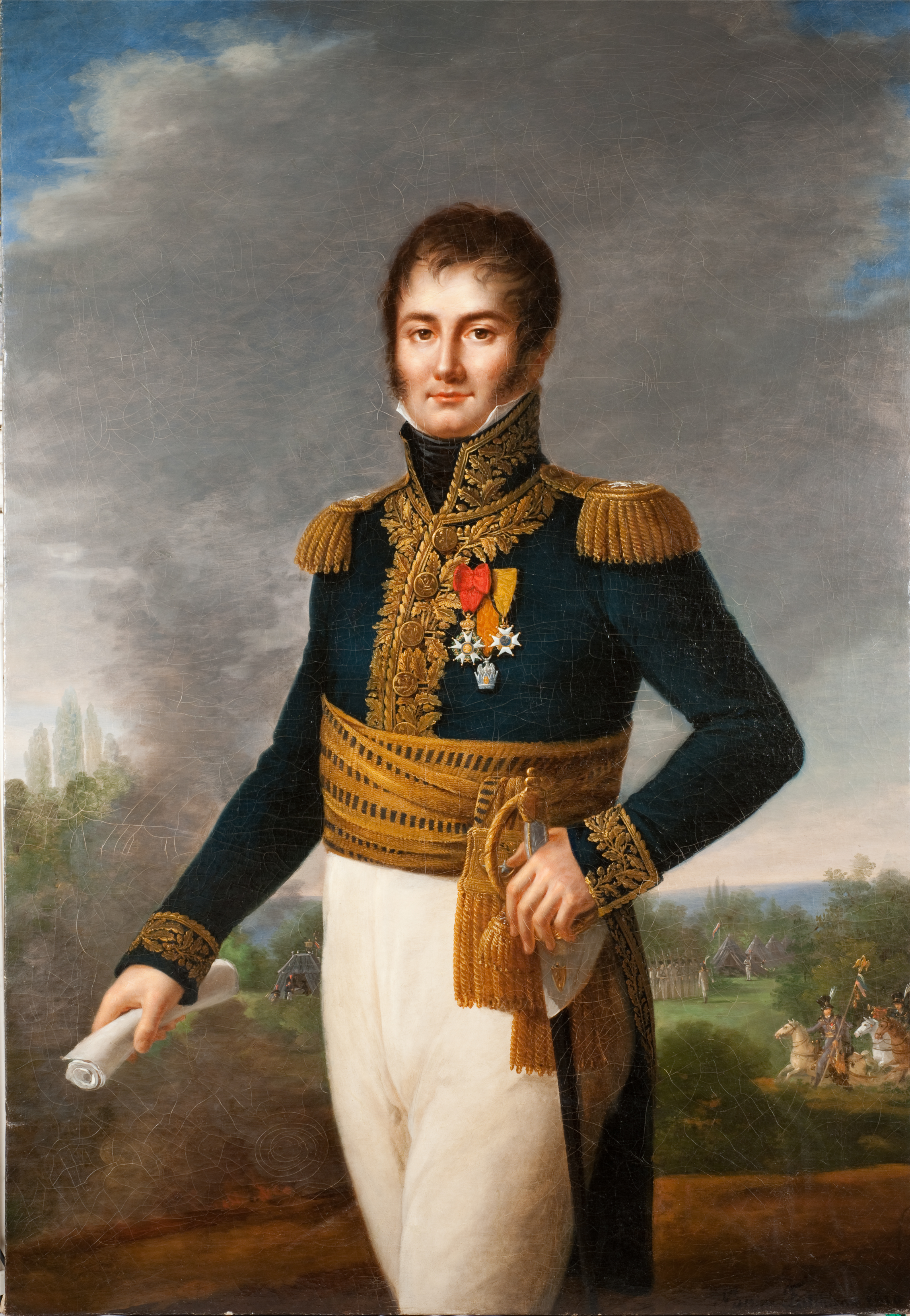 Hilaire Reynaud par Nanine Fulchiron